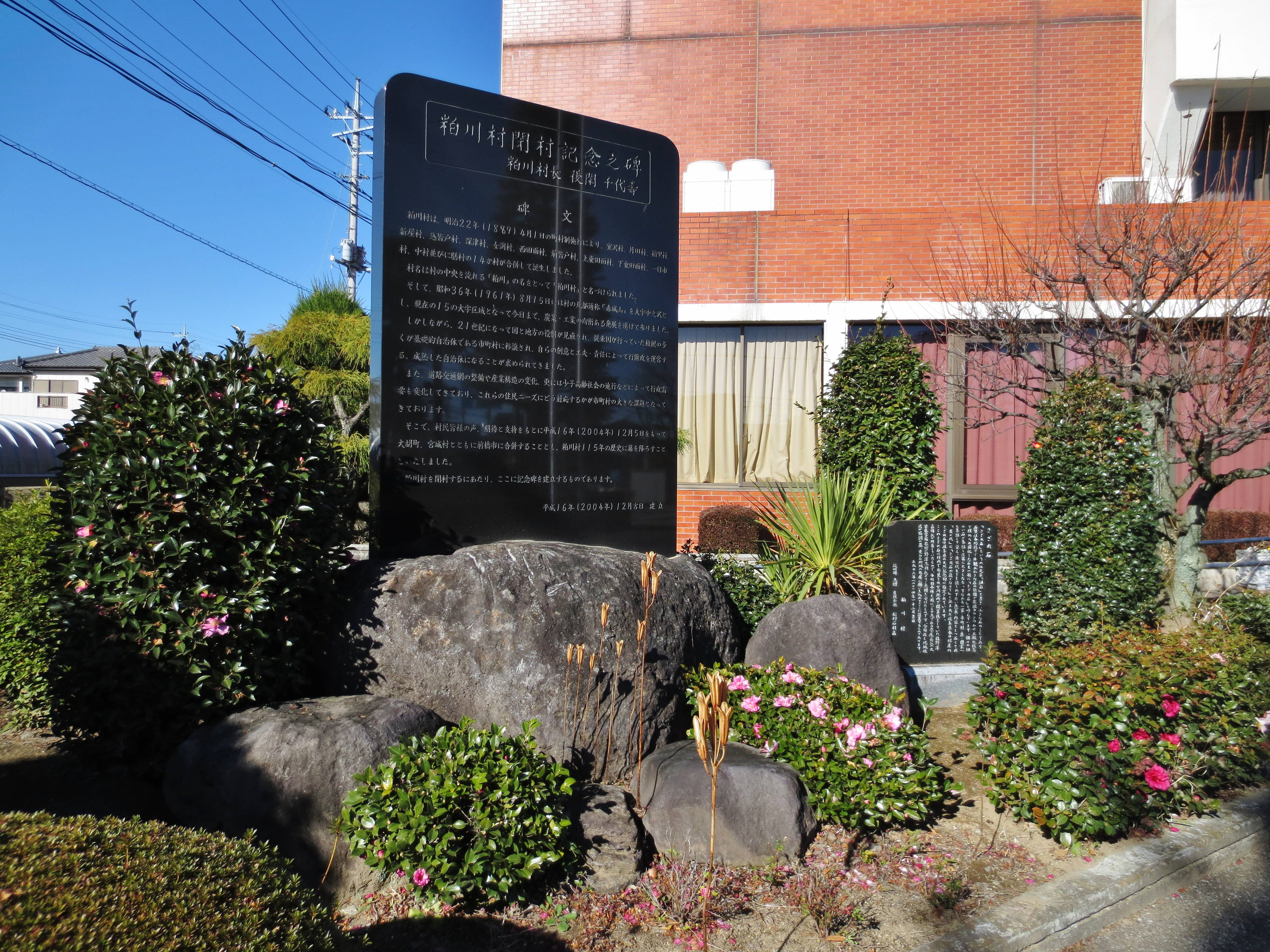 Maebashi city Kasukawa branch office.